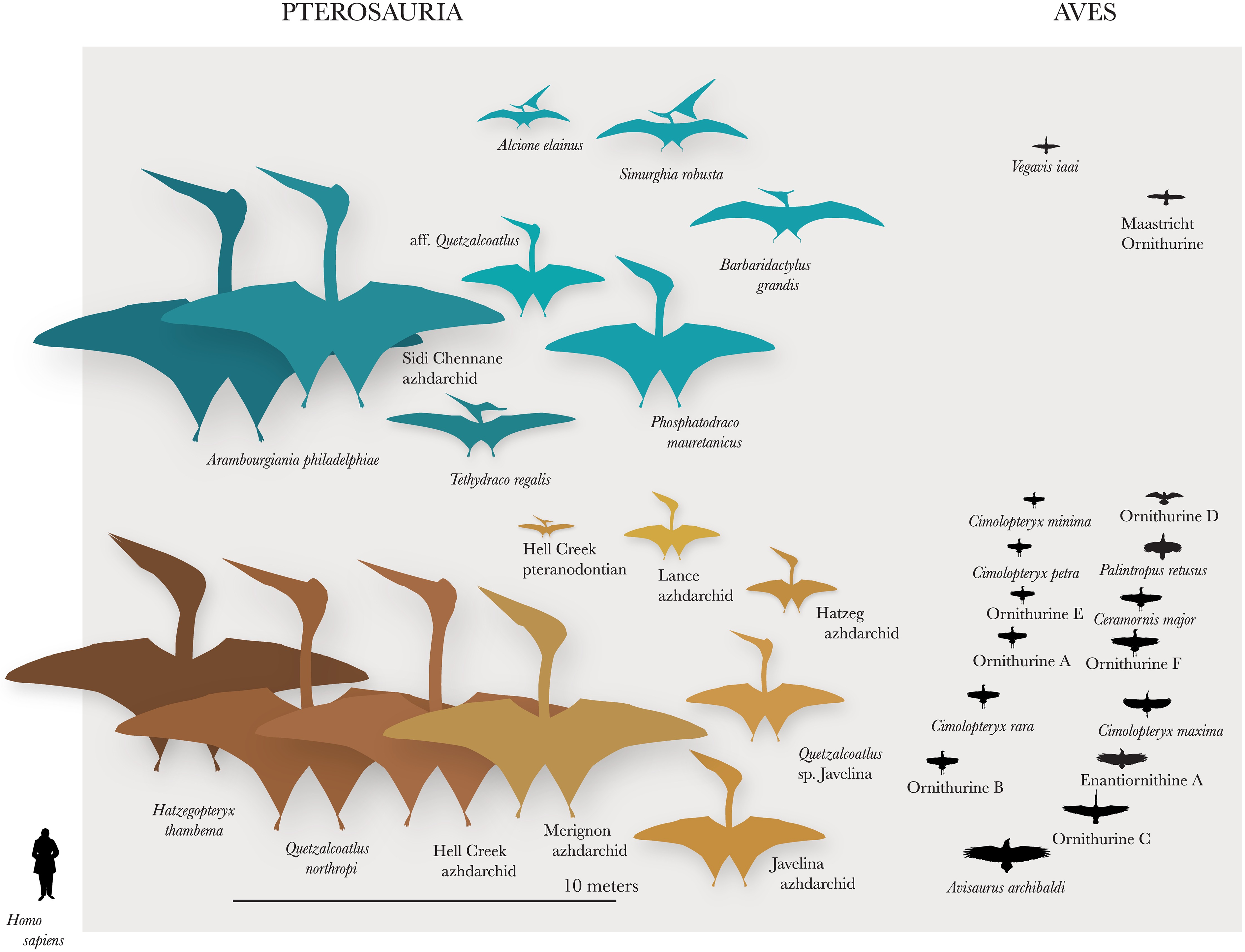 "Fig 20. Size disparity of late Maastrichtian pterosaurs and birds. Maastrichtian pterosaurs are larger than coeval birds in both marine (blue) and terrestrial/freshwater (orange) ecosystems. Wingspan estimates for pterosaurs are from S2 Data. Wingspans for terrestrial birds were made using estimated masses from Longrich et al. [74] and the equation for passeriformes from Norberg [75] or from reconstructions based on fossils [76,77]." 74. Longrich NR, Tokaryk TT, Field D. Mass extinction of birds at the Cretaceous-Paleogene (K-Pg) boundary. Proceedings of the National Academy of Sciences. 2011;108(37):15253–7. 75. Norberg UM. Allometry of bat wings and legs and comparison with bird wings. Philosophical Transactions of the Royal Society of London B: Biological Sciences. 1981;292(1061):359–98. 76. Dyke GJ, Dortangs R, Jagt JWM, Mulder EWA, Schulp AS, Chiappe LM. Europe's last Mesozoic bird. Naturwissenschaften. 2002;89:408–11. pmid:12435093 77. Agnolín FL, Egli FB, Chatterjee S, Marsà JAG, Novas FE. Vegaviidae, a new clade of southern diving birds that survived the K/T boundary. The Science of Nature. 2017;104(11–12):87. pmid:28988276